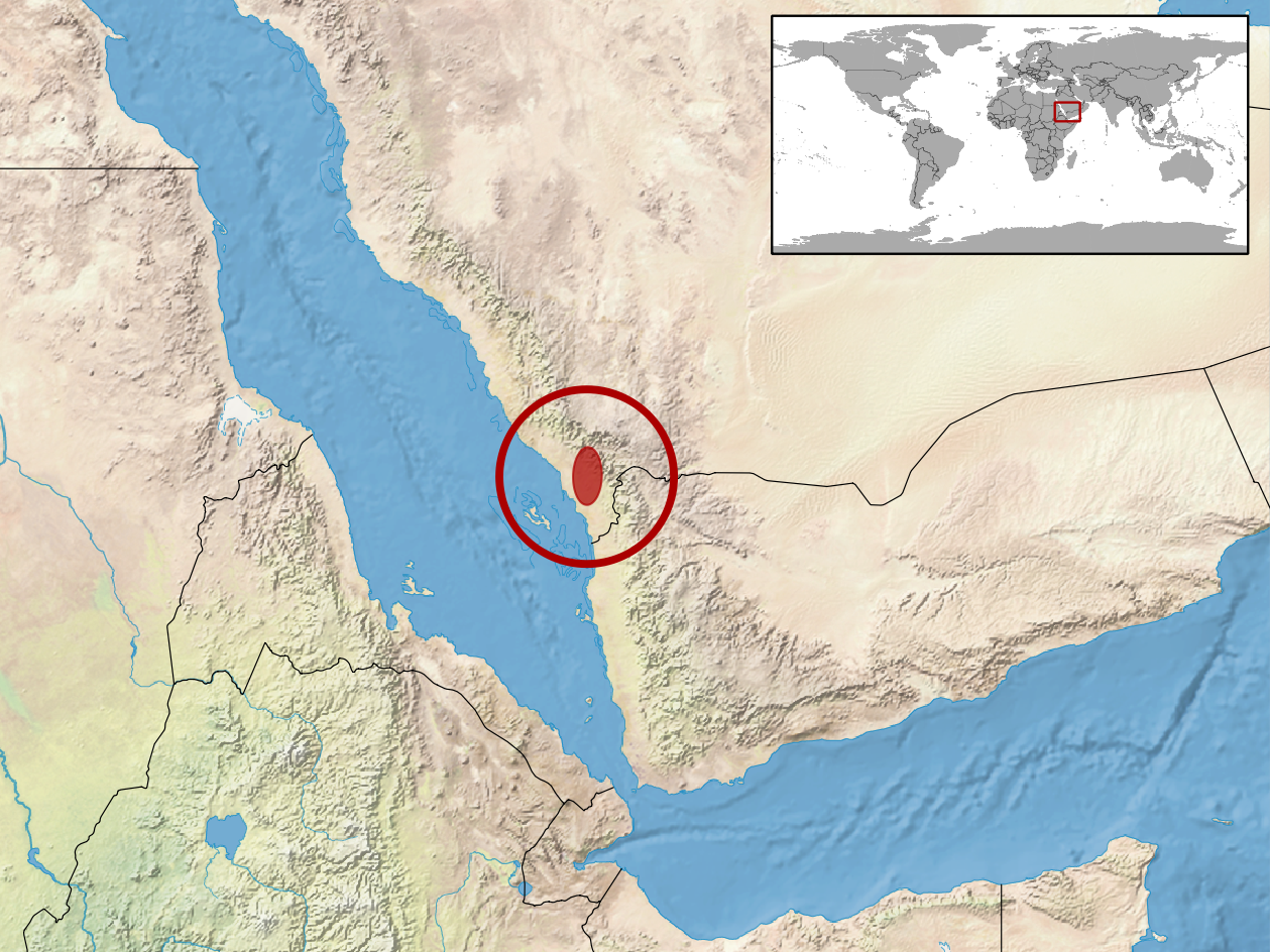 geographic distribution of Chalcides levitoni